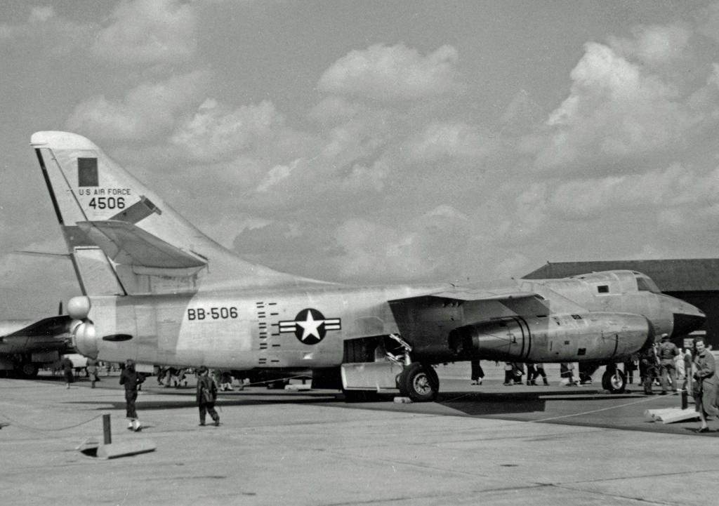 Douglas RB-66B Destroyer 54-506 at RAF Burtonwood in 1957